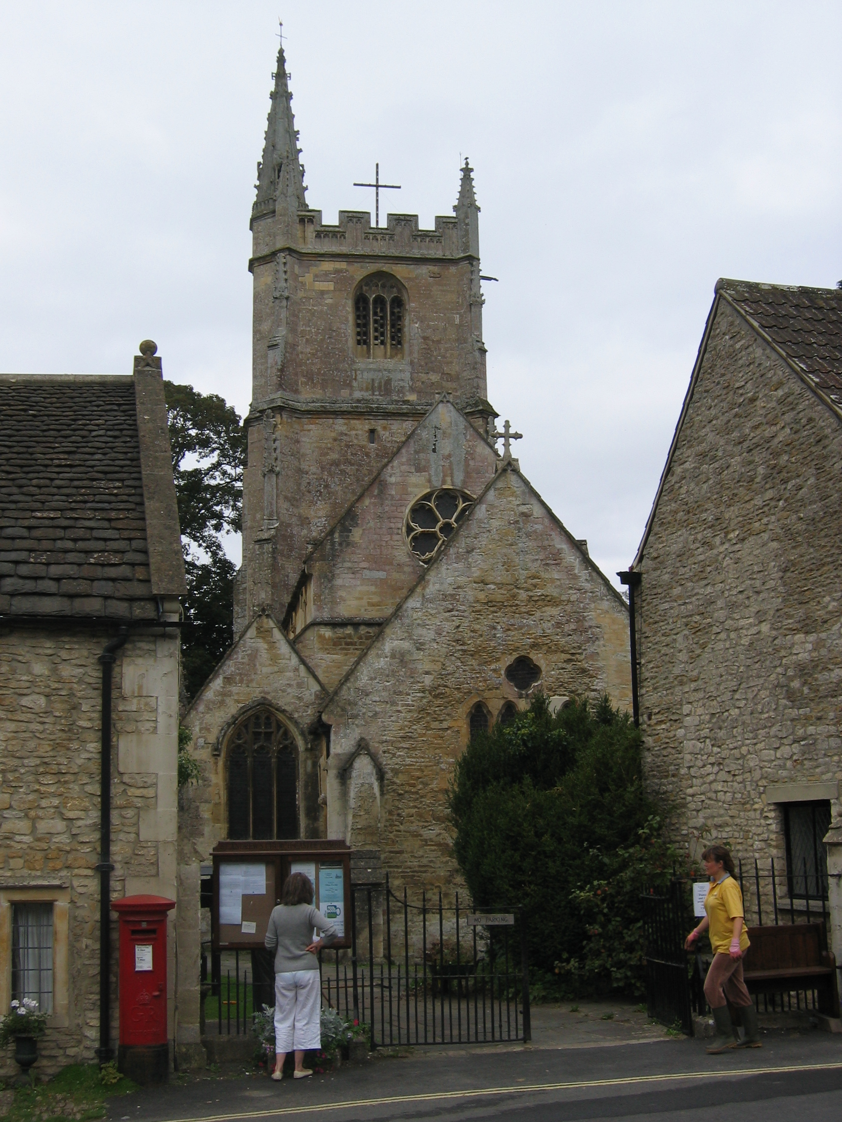 St Andrew's church, Castle Combe, Wiltshire